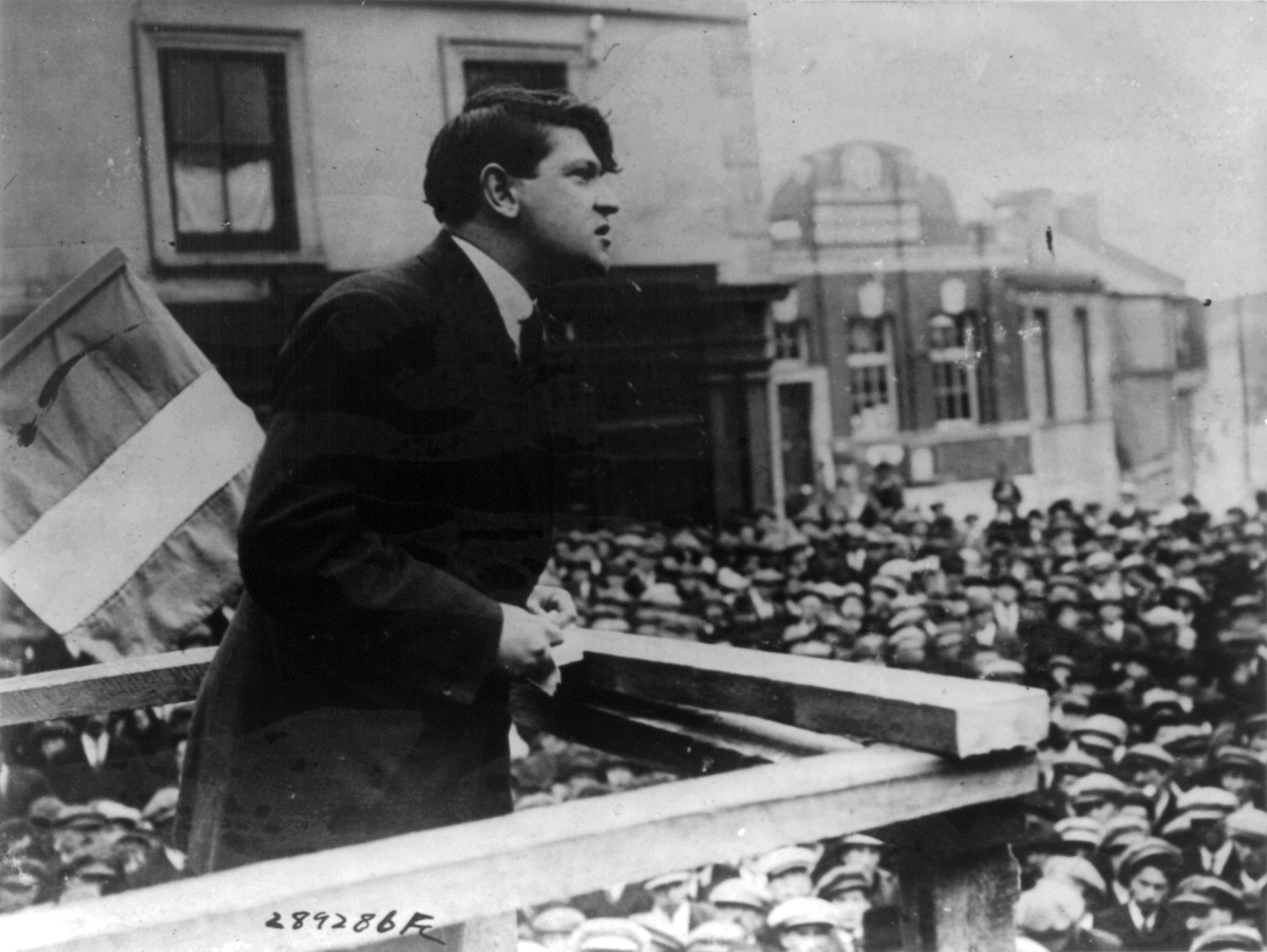 Michael Collins addresses throng in Cork, [Skibbereen County, Ireland], on St. Patrick's Day